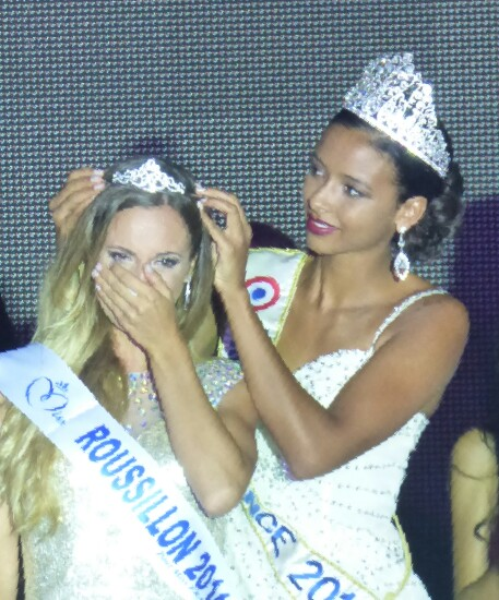 Sheana Vila Real being crowned as "Miss Roussillon 2014" by "Miss France 2014", Flora Coquerel.